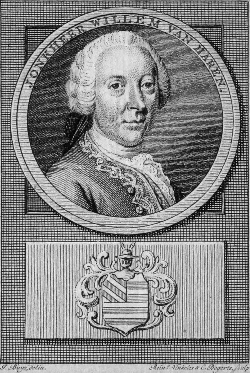 Willem van Haren (1710-1768)